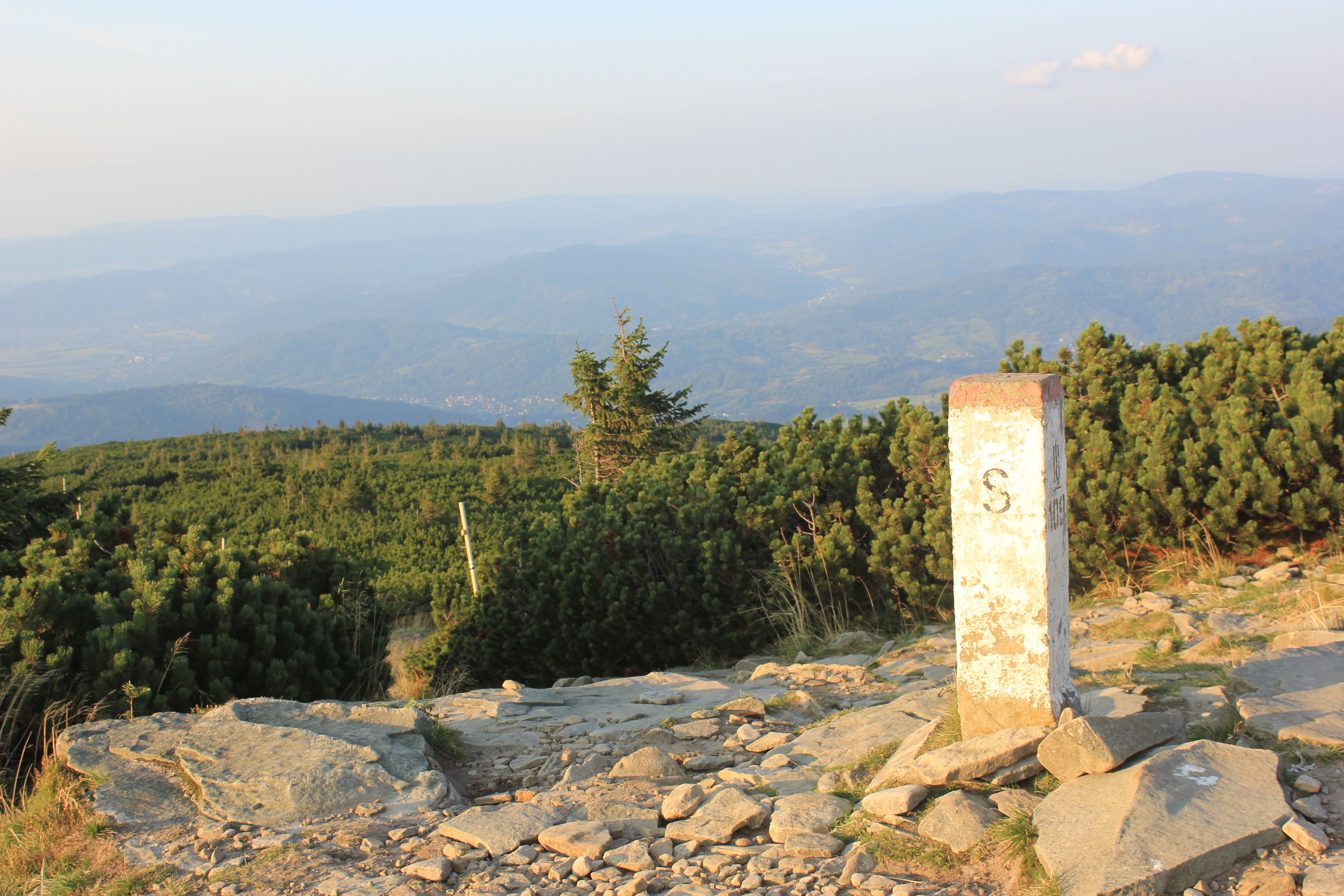 Beskid Żywiecki - mount Pilsko (Góra Pięciu Kopców)